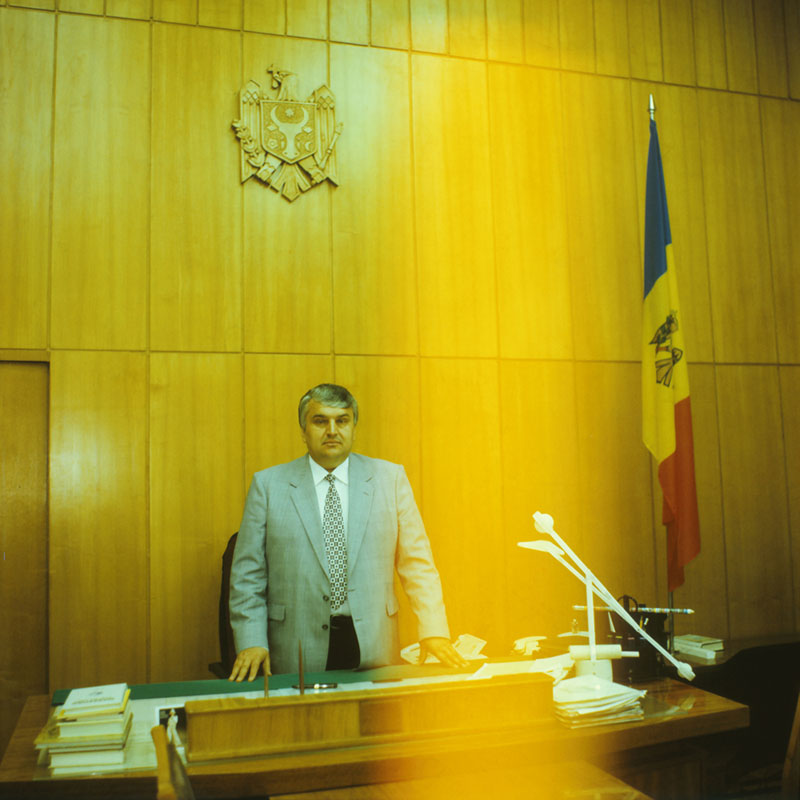 Serafim Urechean - general mayor of Chisinau.